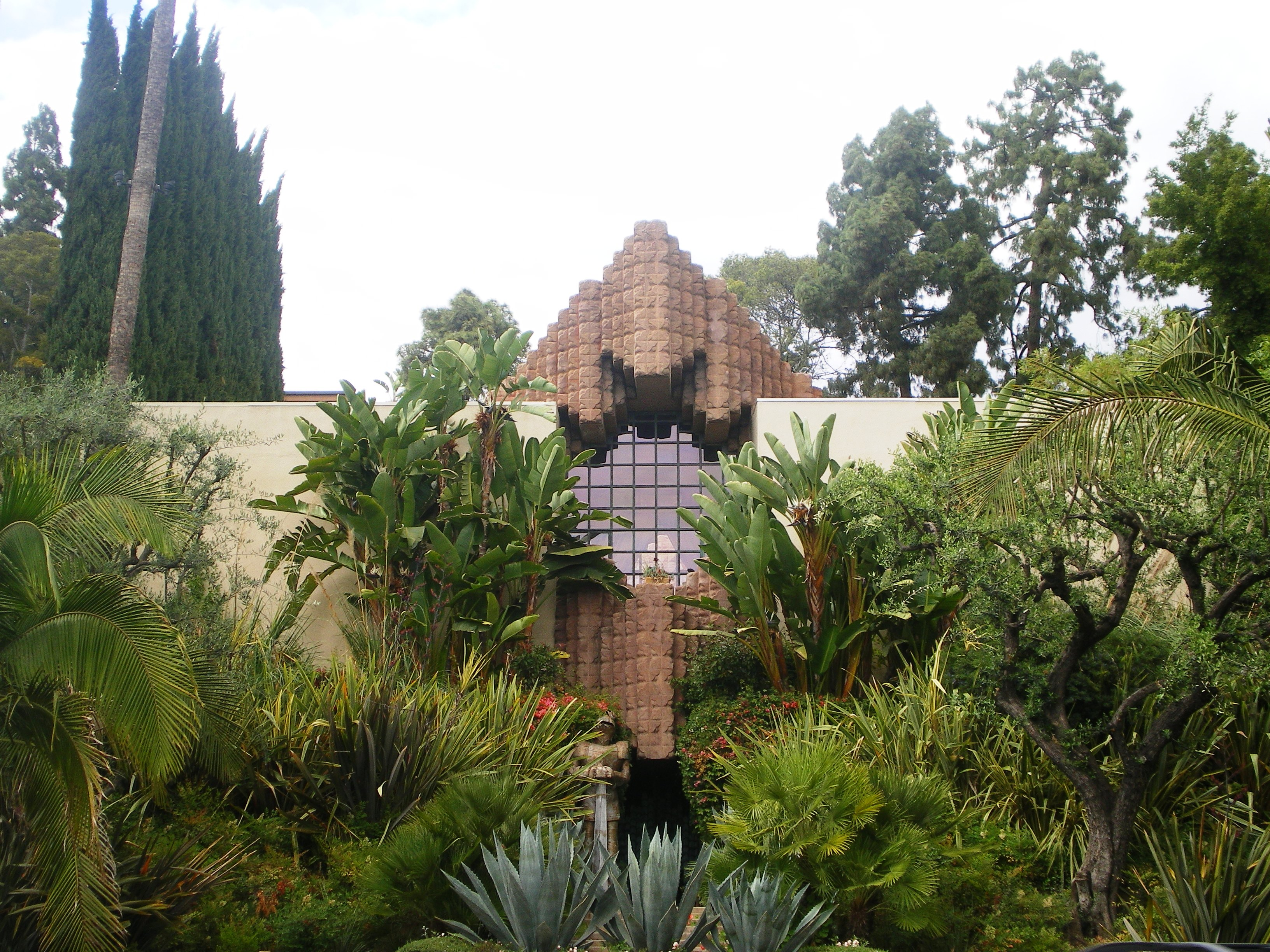 John Sowden House, street facade and garden — at 5121 Franklin Avenue, Los Feliz district, Los Angeles, California